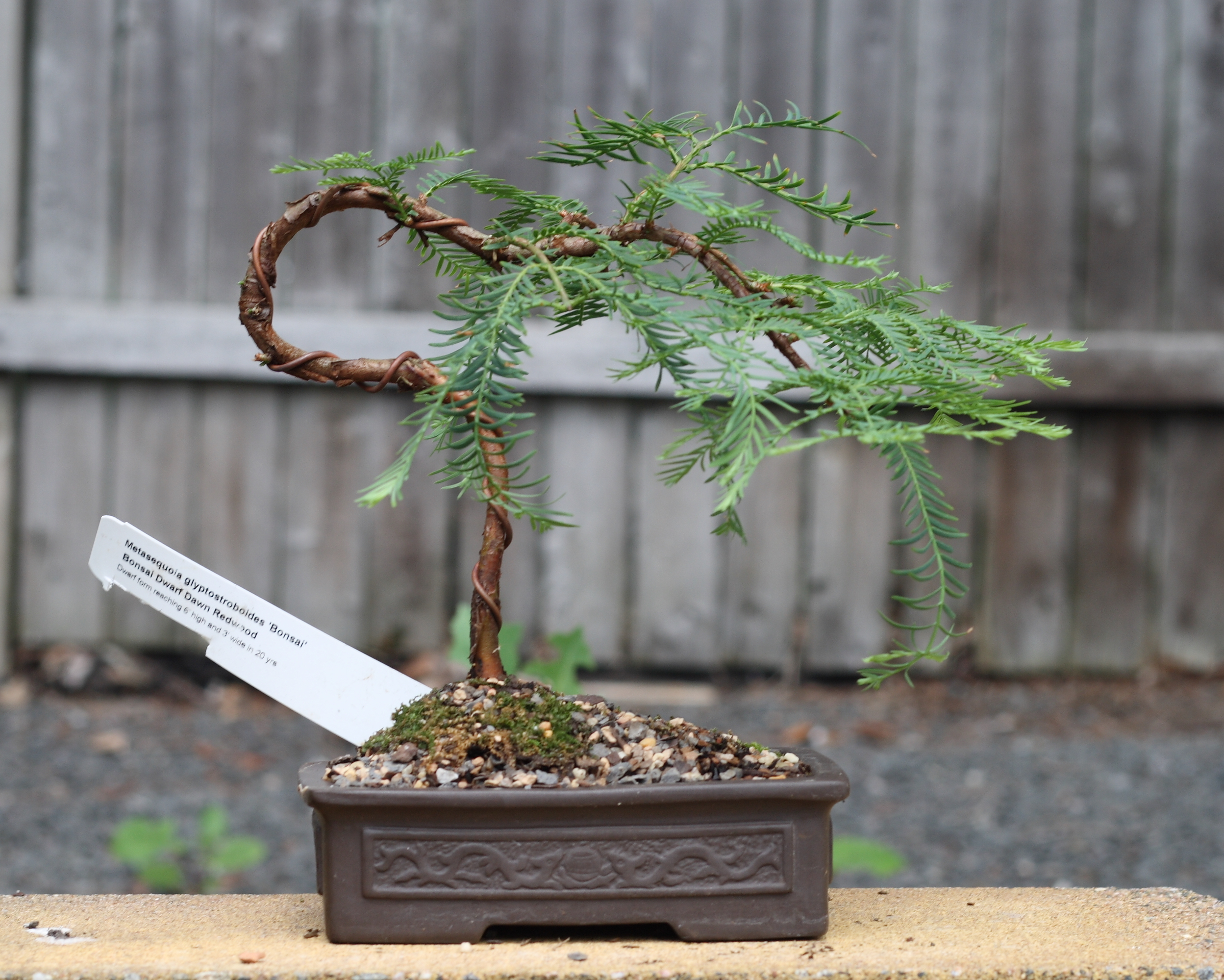 A Bonsai Dwarf Dawn Redwood (Metasequoia glyptostroboides 'Bonsai') bonsai.